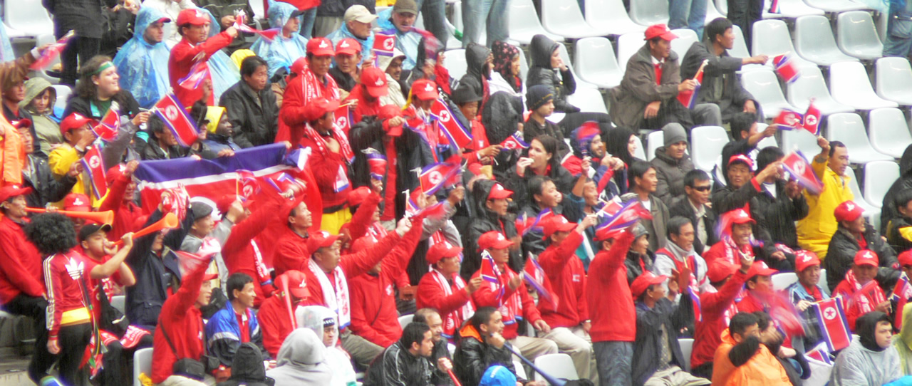 Supporters of the North Korean national team.